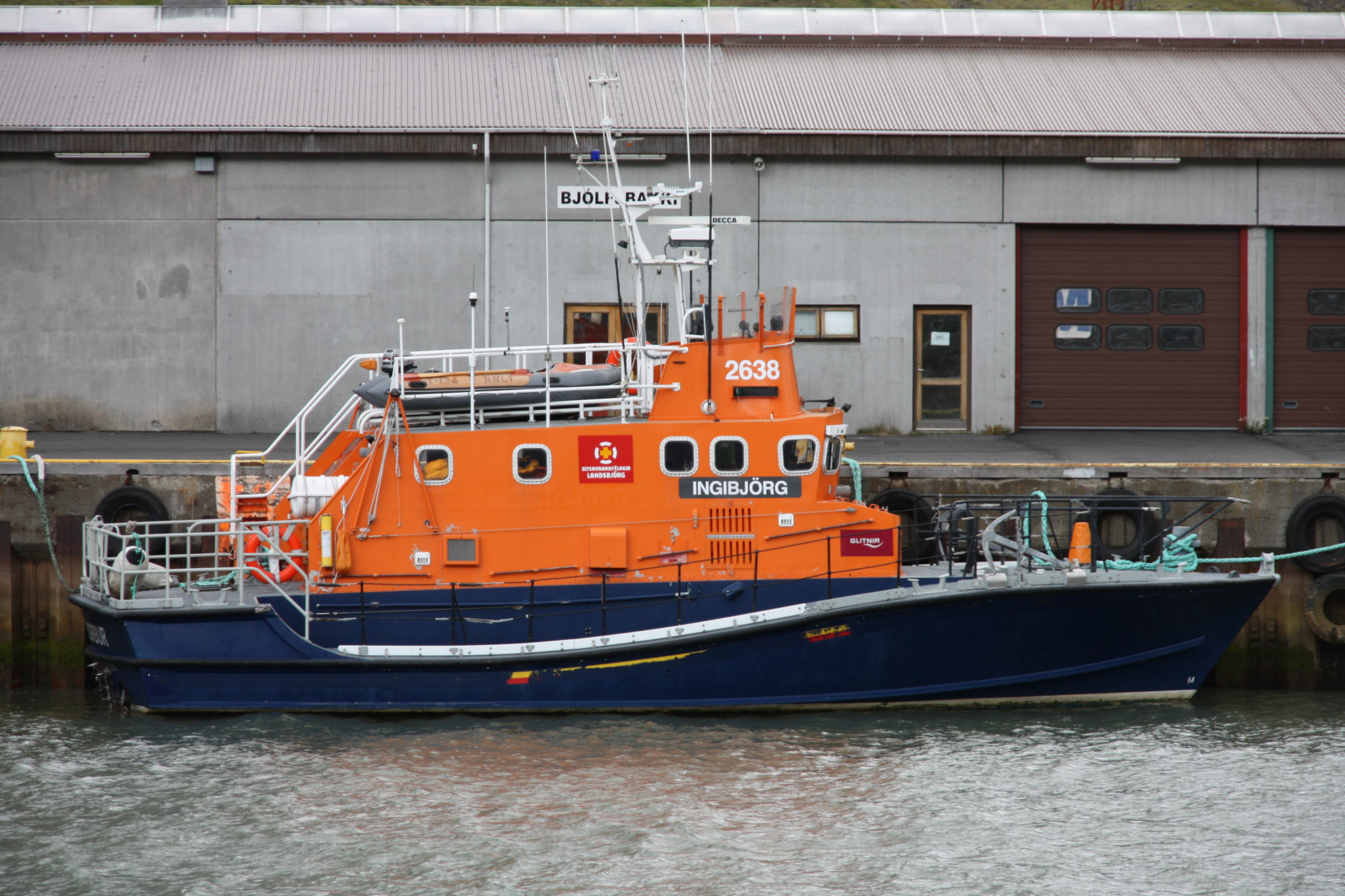 Ship Ingebjörg of lifesaving organization Slysavarnafelagid Landsbjorg, Seydisfjordur, Iceland.